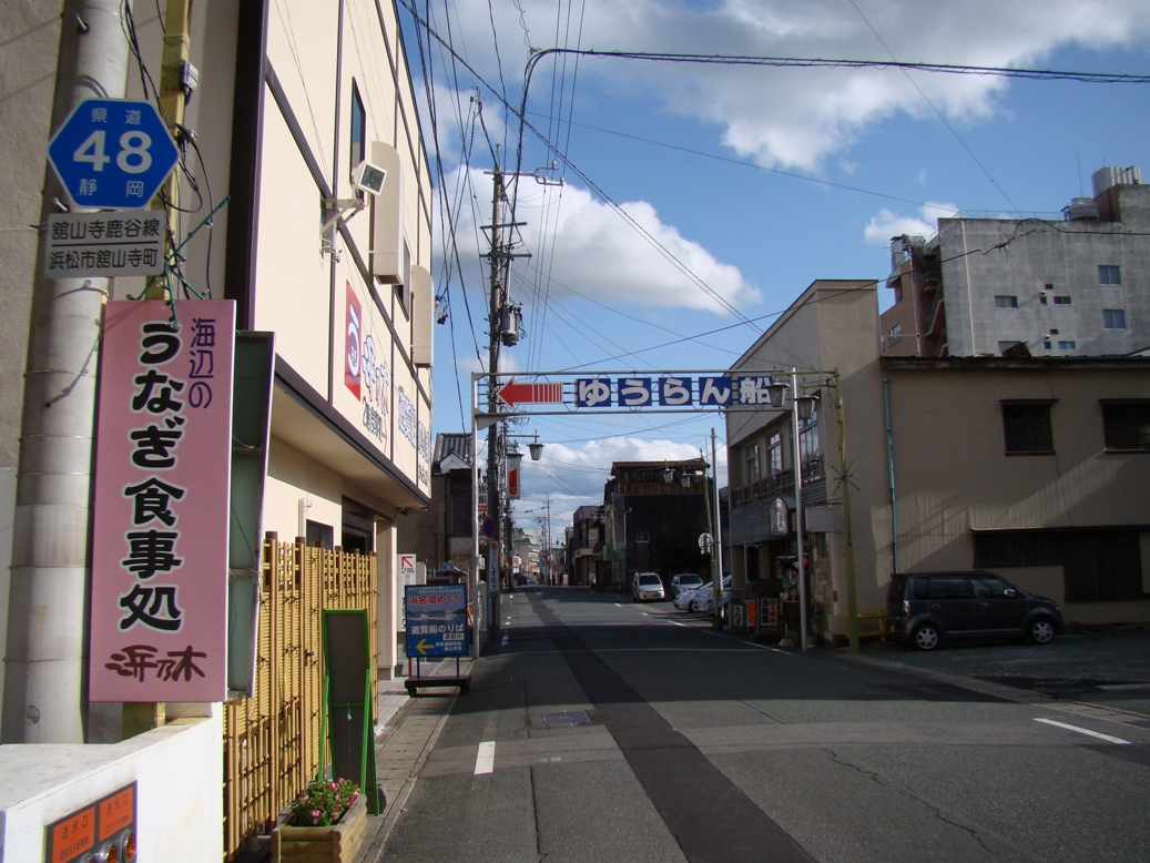 Kanzanji hot spring in Hamamatsu city Shizuoka Japan